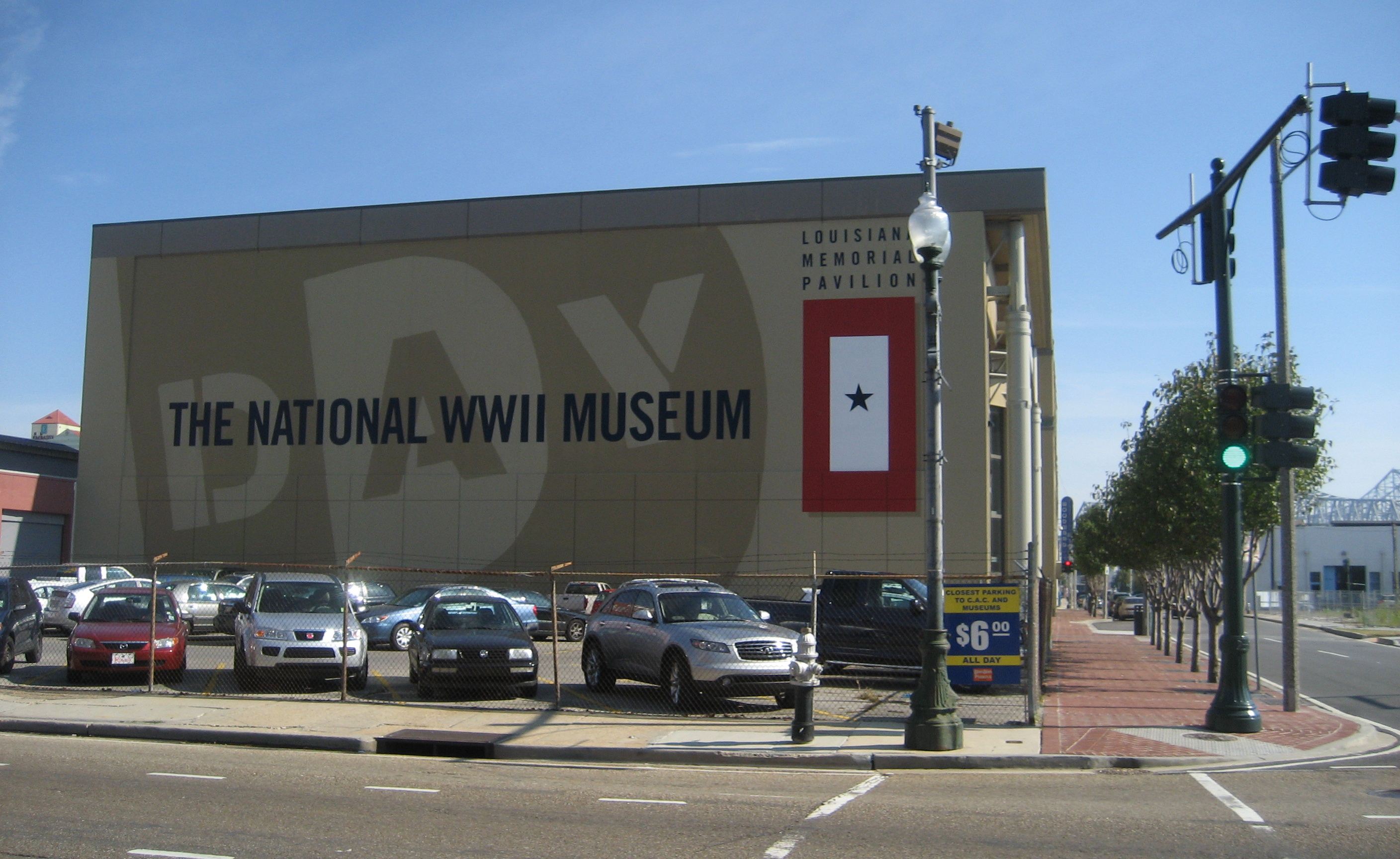 New Orleans: National World War II Museum as seen from Camp Street